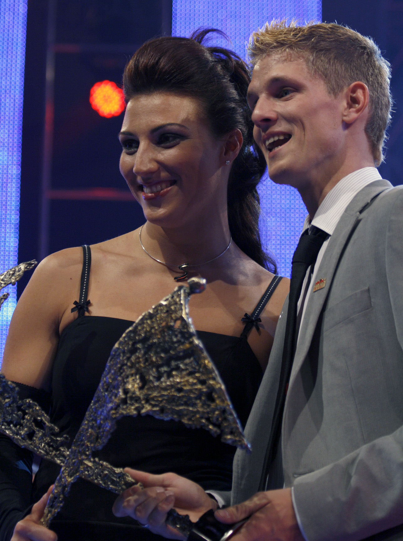 Mirna Jukic and Thomas Morgenstern, Austrian Austrian Sportspersonalities of the year 2008.